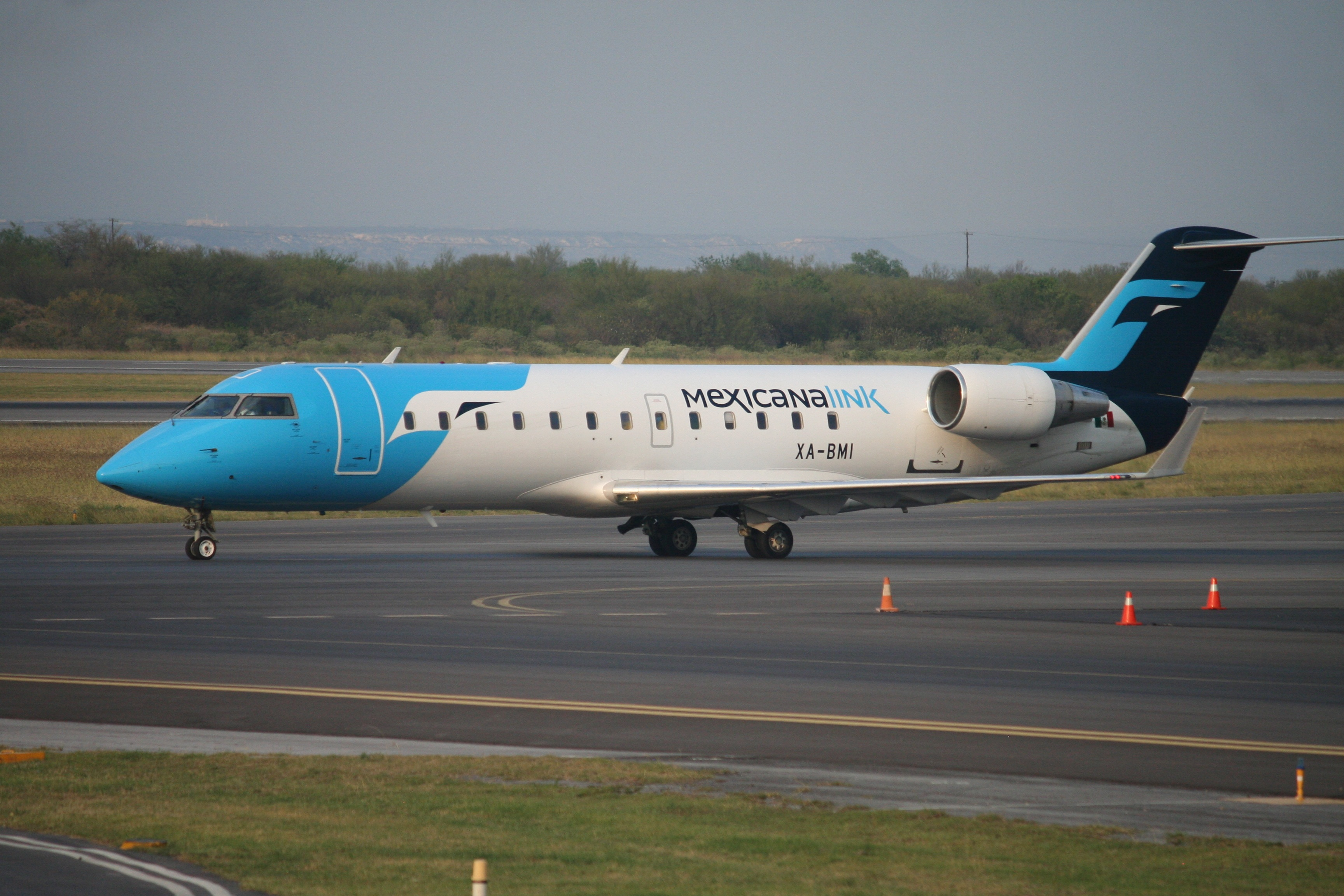 New airline part of Mexicana Airlines Group. Bombardier CRJ-200 on Monterrey Airport